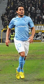 Ricardinho